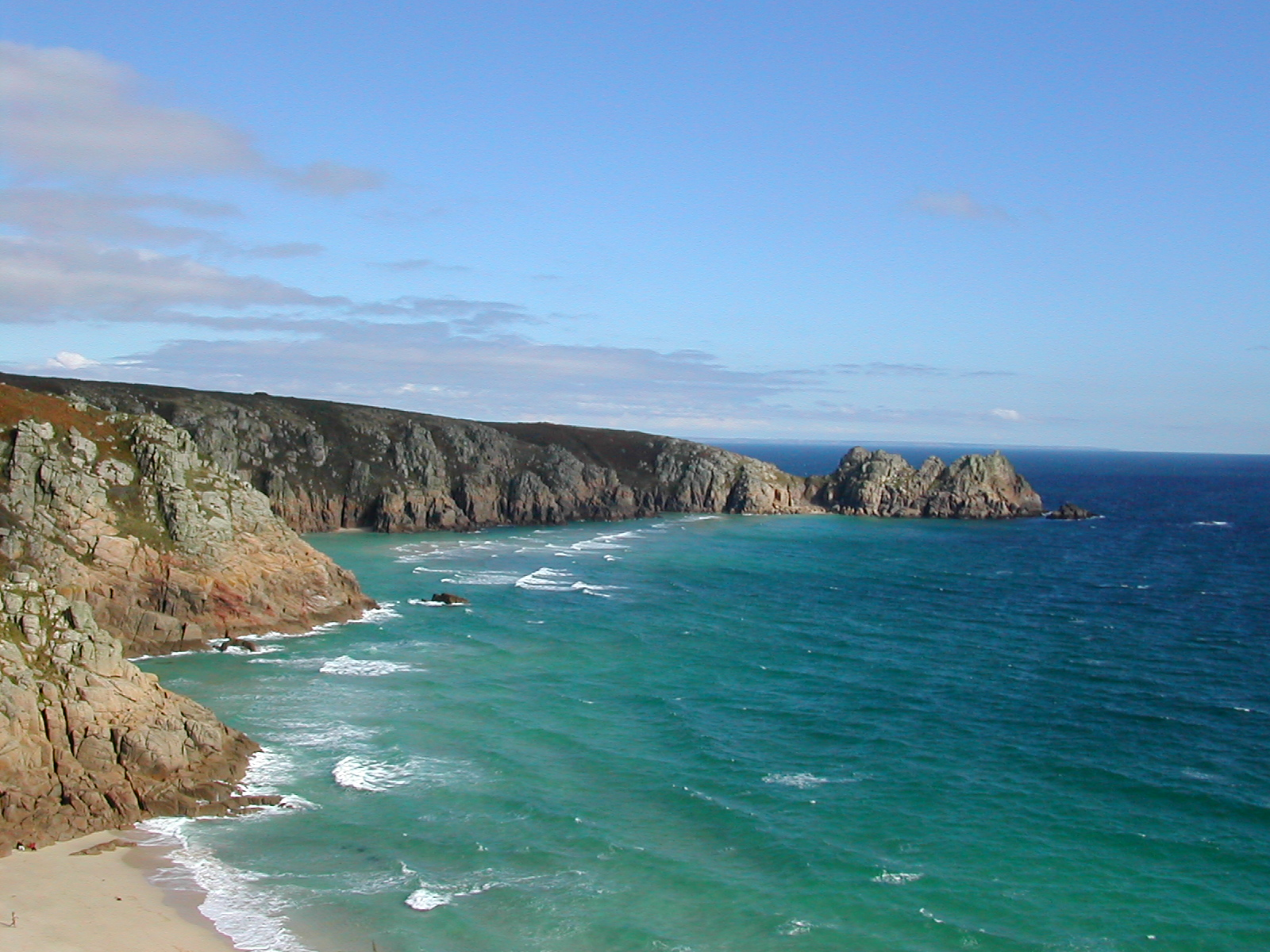 Porthcurno Bay and Logan Rock Headland taken from the top of Mansel's Hill, Porthcurno, Cornwall, United Kingdom: by Chris Angove +44-1245-353646